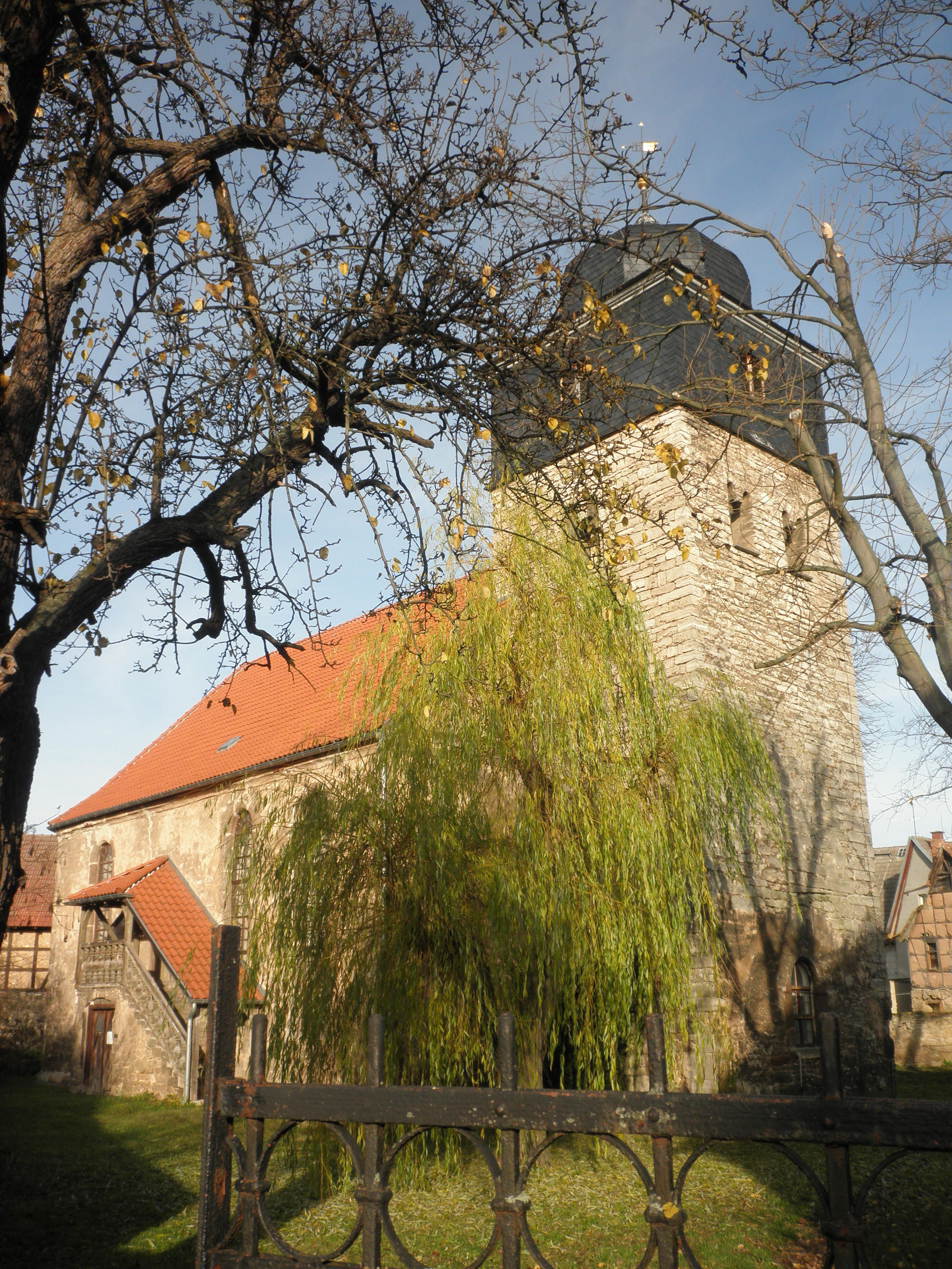 Church in Westgreußen in Thuringia